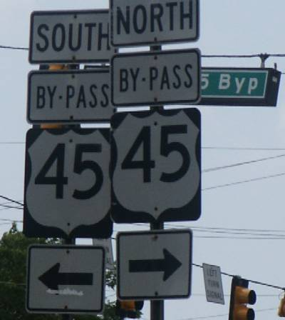 US 45 Bypass in Jackson, TN. Photo by submitter, released without restriction.